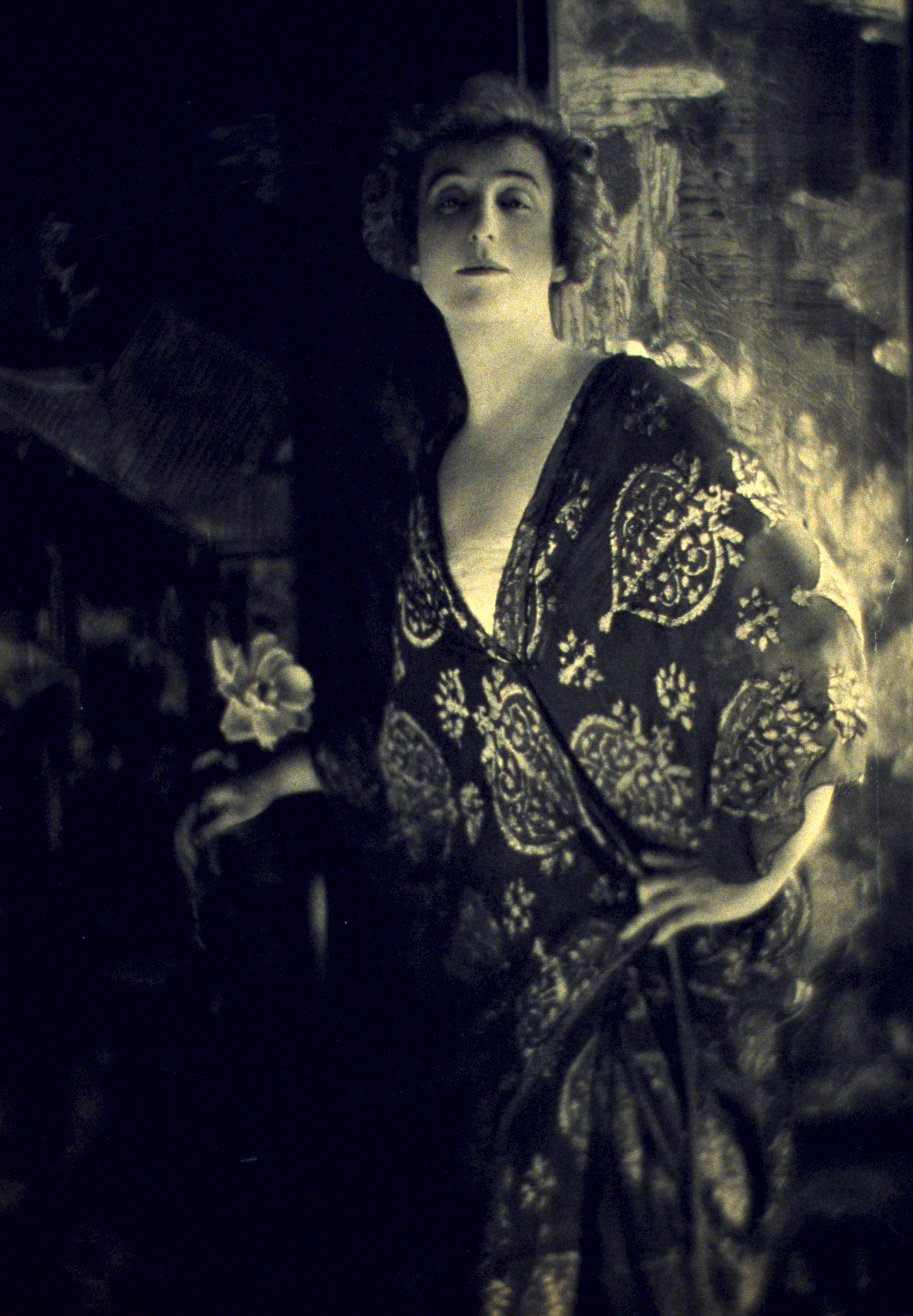 1 photographic print : gelatin silver ; 43 x 33 cm.